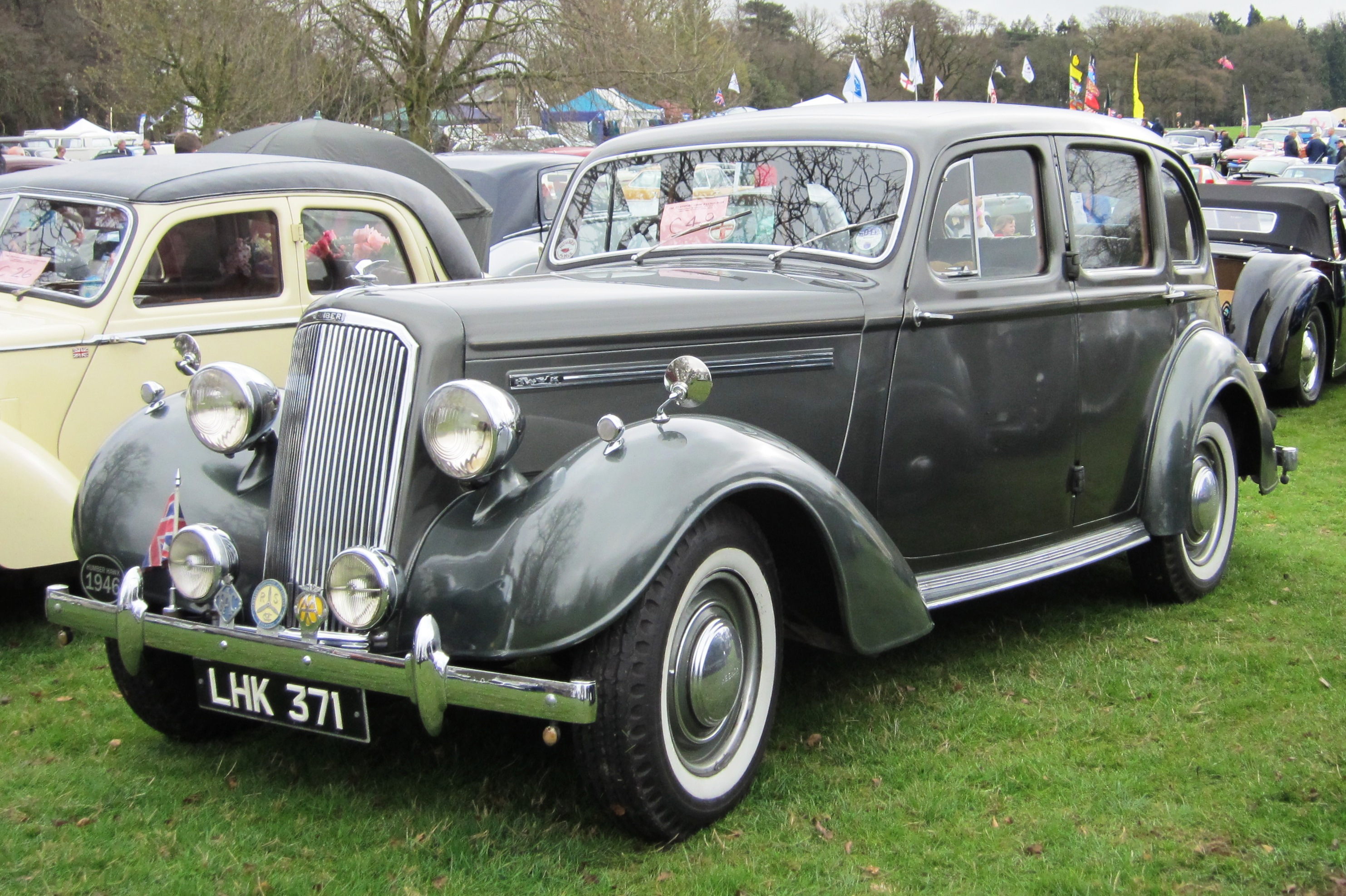 Humber Hawk 1946 at Weston